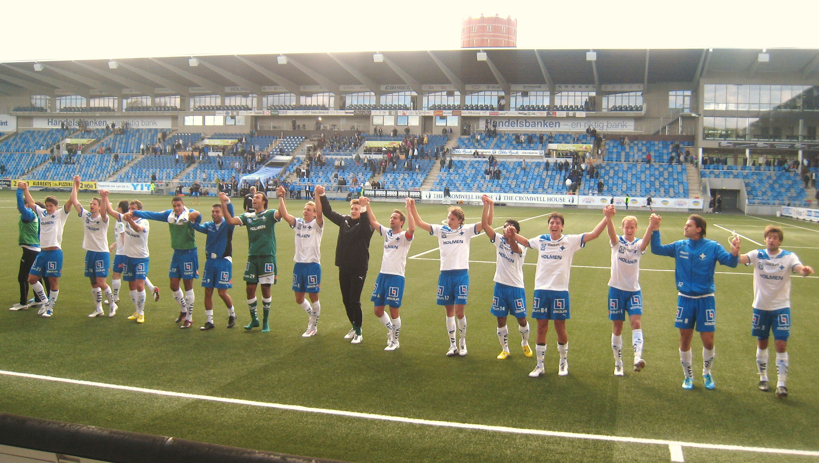 IFK Norrköping celebrates 3-0 winn against Örebro SK in Fotbollsallsvenskan at Nya Parken.